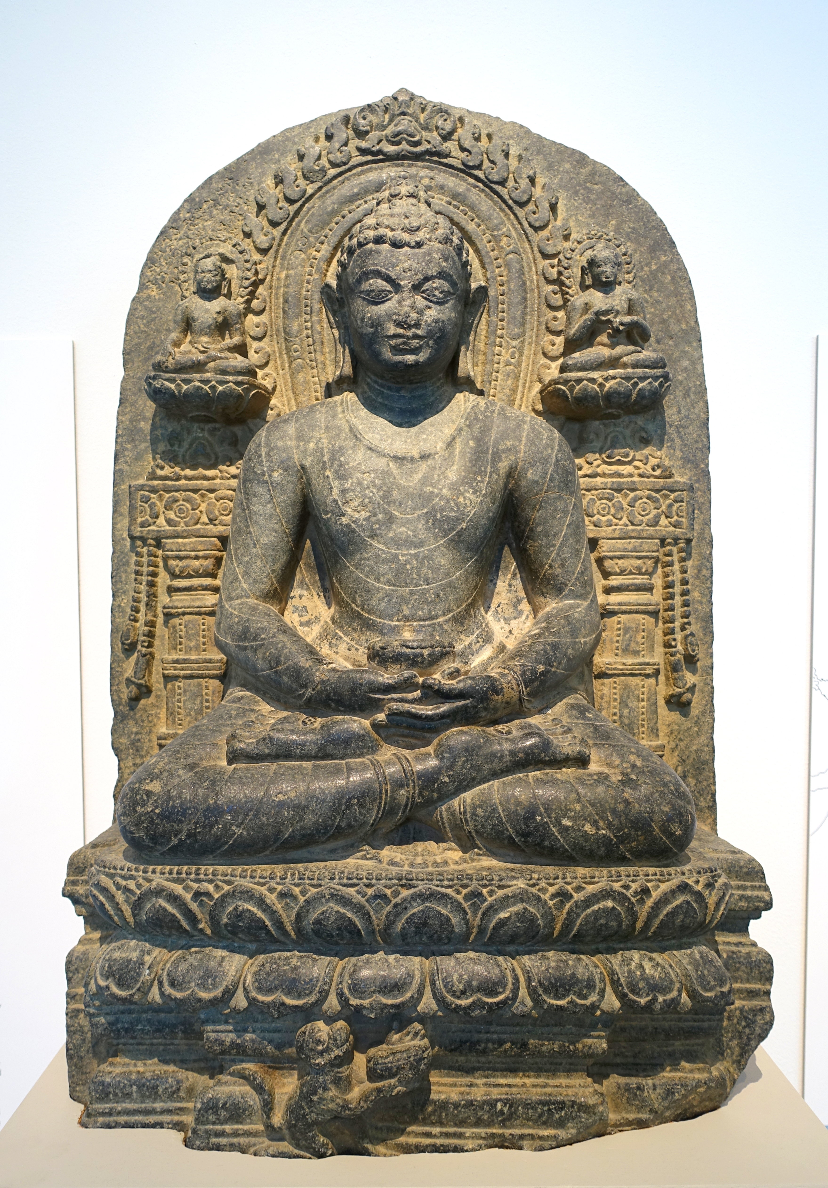 Monkey gives honey to Buddha Shakyamuni, India, Bihar, probably Kurkihar, Pala dynasty, c. 1000 AD, black stone - Östasiatiska museet, Stockholm, Sweden. This artwork is old enough so that it is in the public domain. This is a photo of an artwork at the Museum of Far Eastern Antiquities in Sweden with the identifier: OM-1989-0074